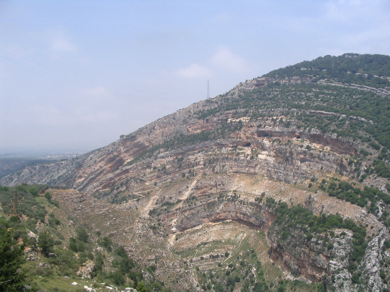 An Anticline near Bcharre, Lebanon. Photo taken in May 2005. Not home 01:03, 3 May 2007 (UTC)